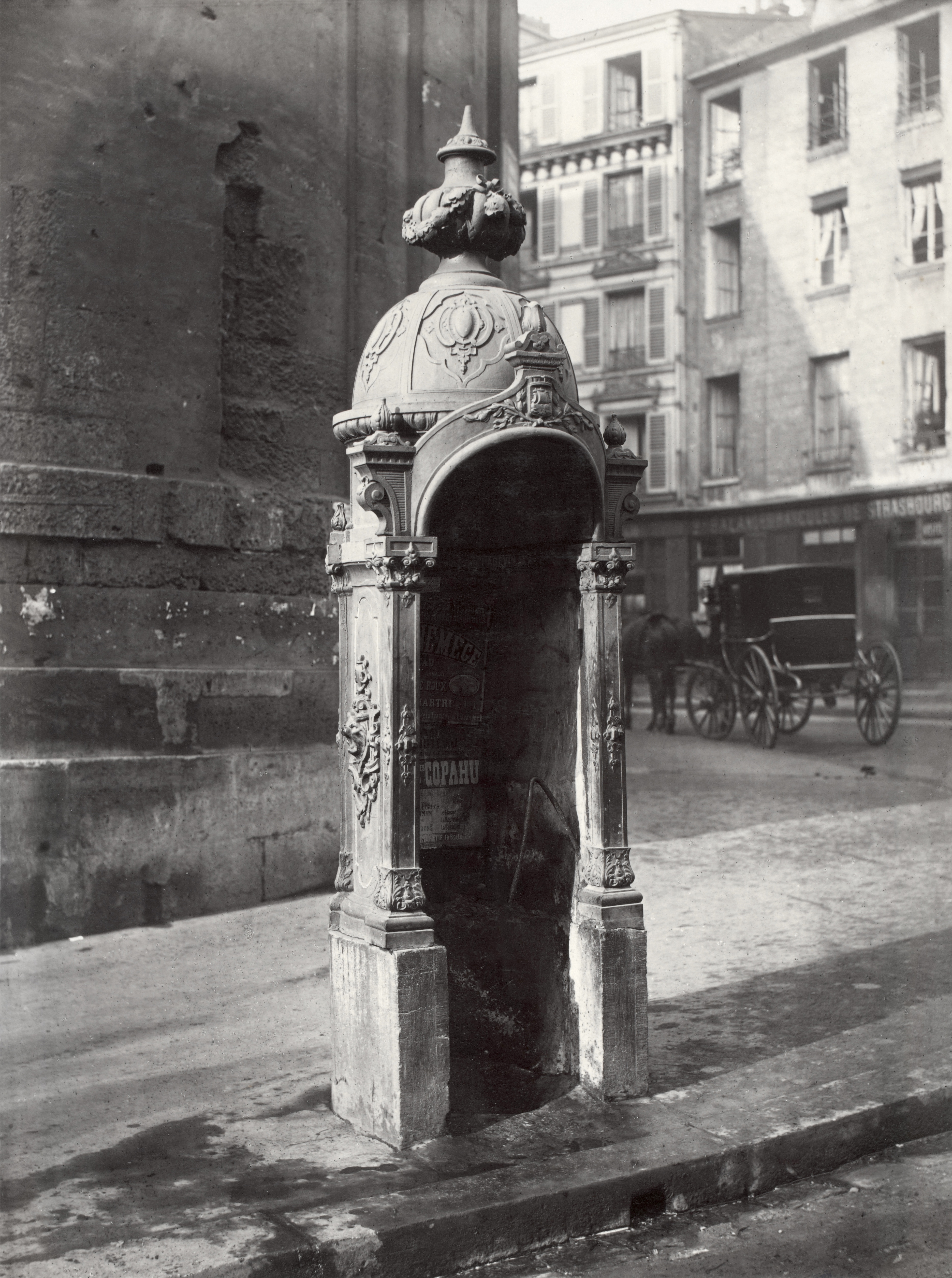 Cast iron and masonry urinal on curb of street, horse-drawn coach on street in background.